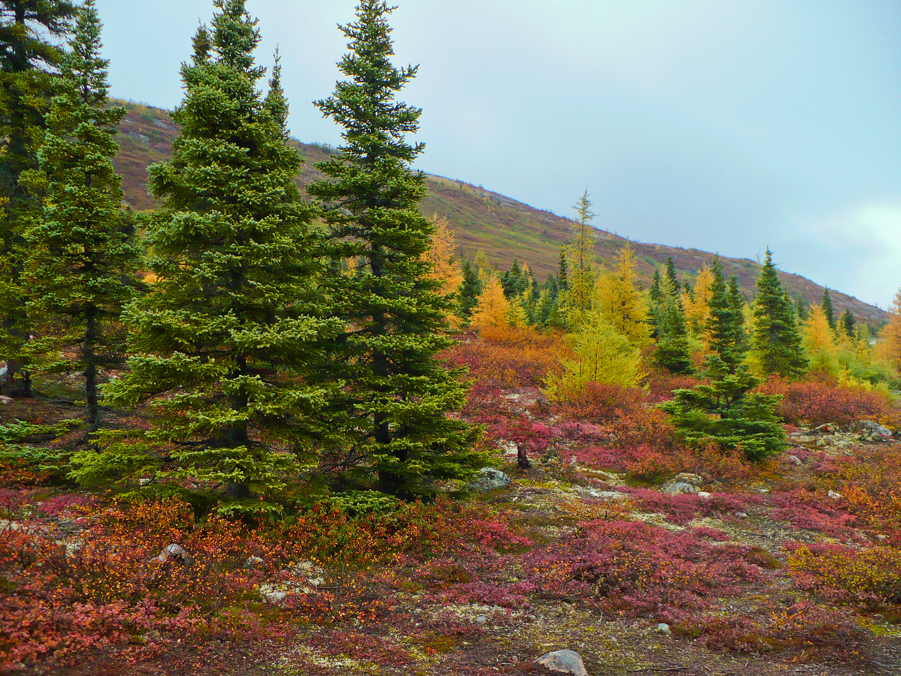 Hillside behind Nain, Labrador.